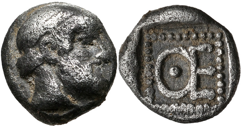 IONIA, Magnesia ad Maeandrum. Themistokles. Circa 465-459 BC